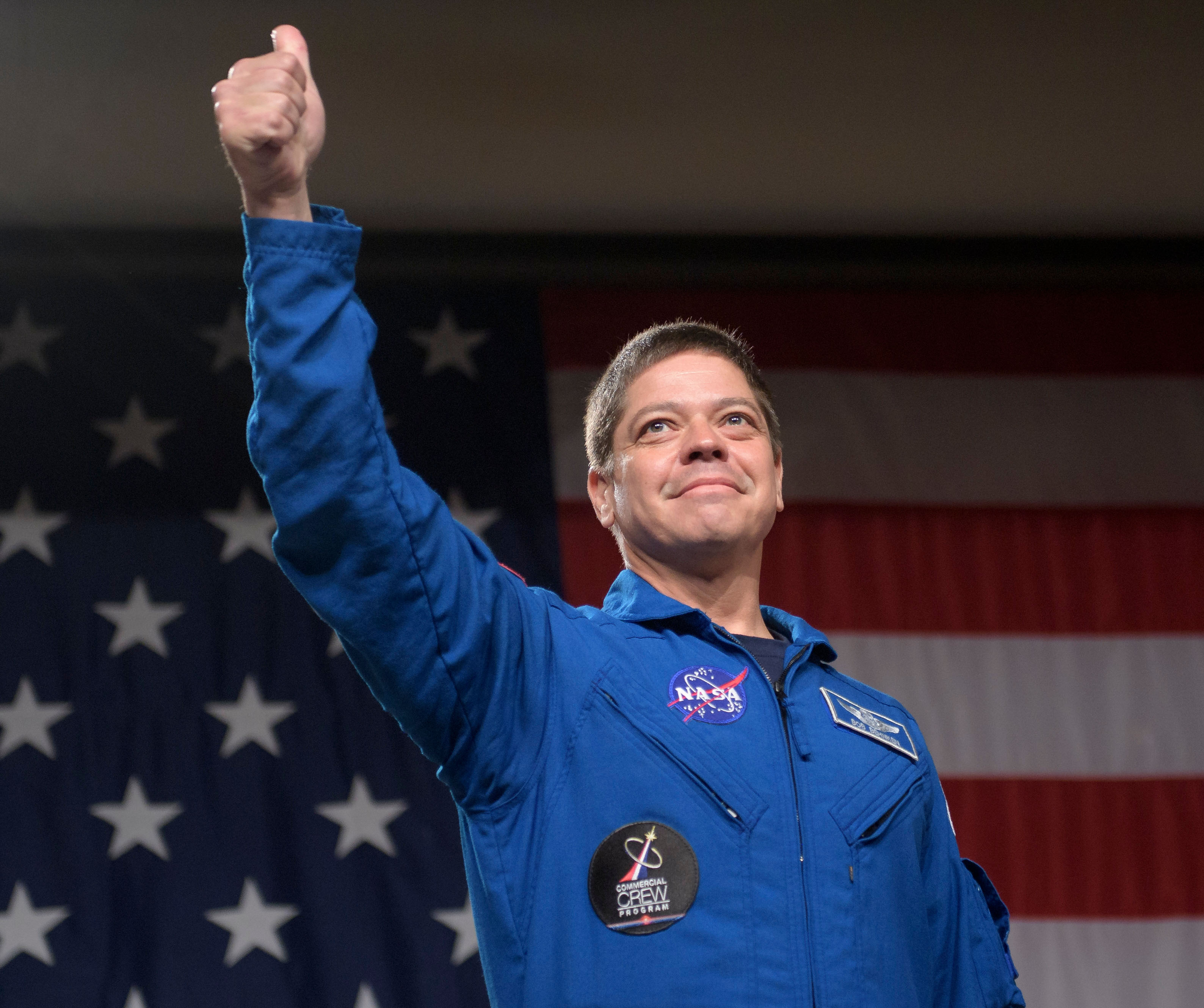 NASA astronaut Bob Behnken is seen during a NASA event where it was announced that he, and NASA astronaut Doug Hurley are assigned to SpaceX’s Crew Dragon Demo-2 flight to the International Space Station, Friday, Aug. 3, 2018 at NASA’s Johnson Space Center in Houston, Texas. Astronauts assigned to crew the first flight tests and missions of the Boeing CST-100 Starliner and SpaceX Crew Dragon were announced during the event.